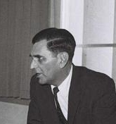 Gobernador de Puerto Rico Roberto Sánchez Vilella en el año 1958 (This file is a derivative of the Wikimedia Commons file at: ), which is NOT Copyrighted and is in the Public Domain (PD)